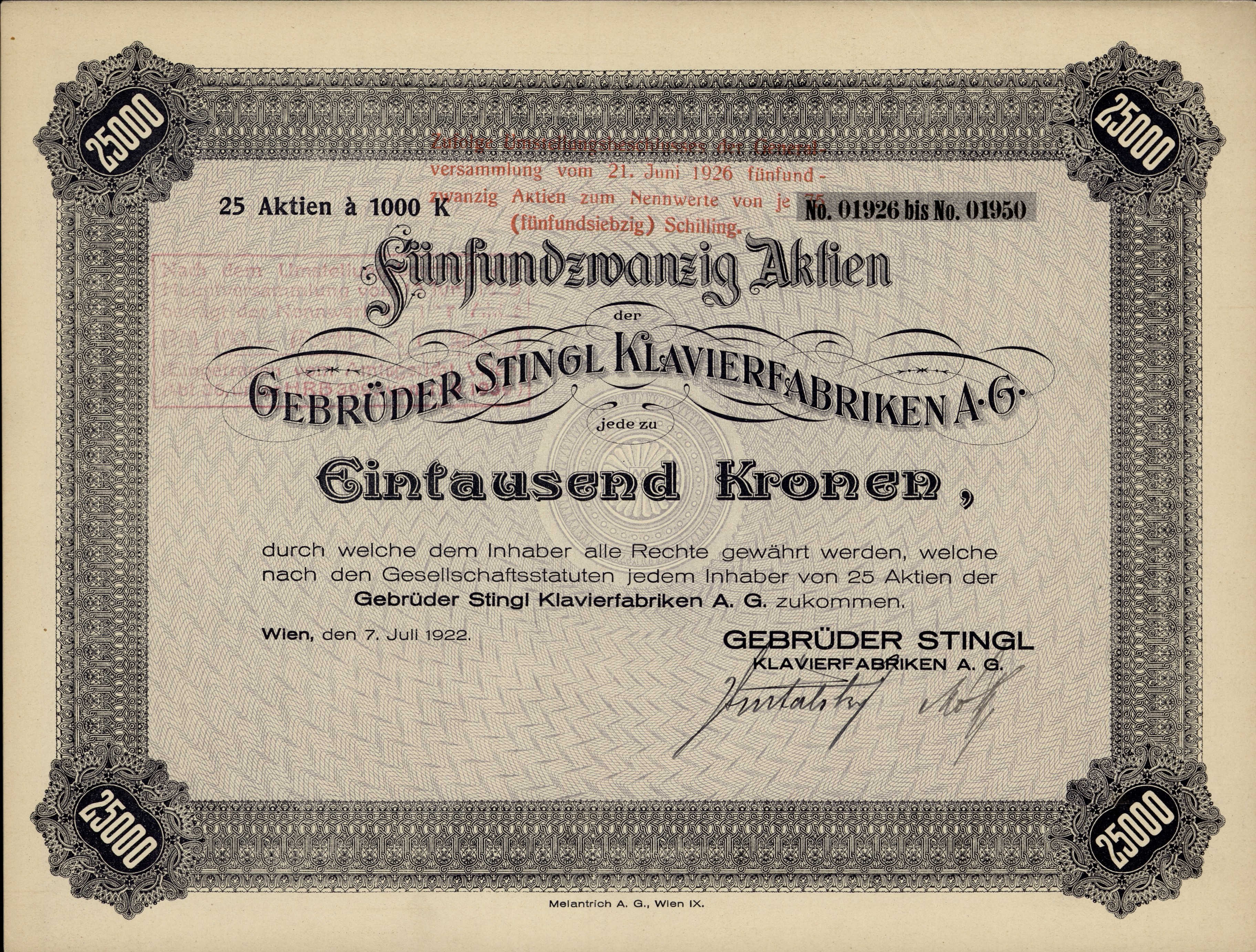 Share of the Gebrüder Stingl Klavierfabriken AG, issued 7. July 1922